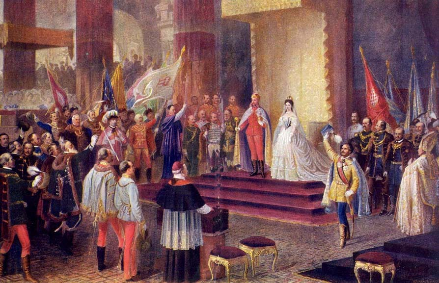 Work of Ödön (Edmund) Tull, copy of original painting of Eduard Engerth.